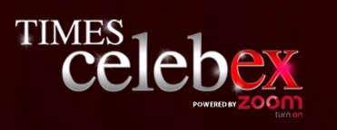 (c)